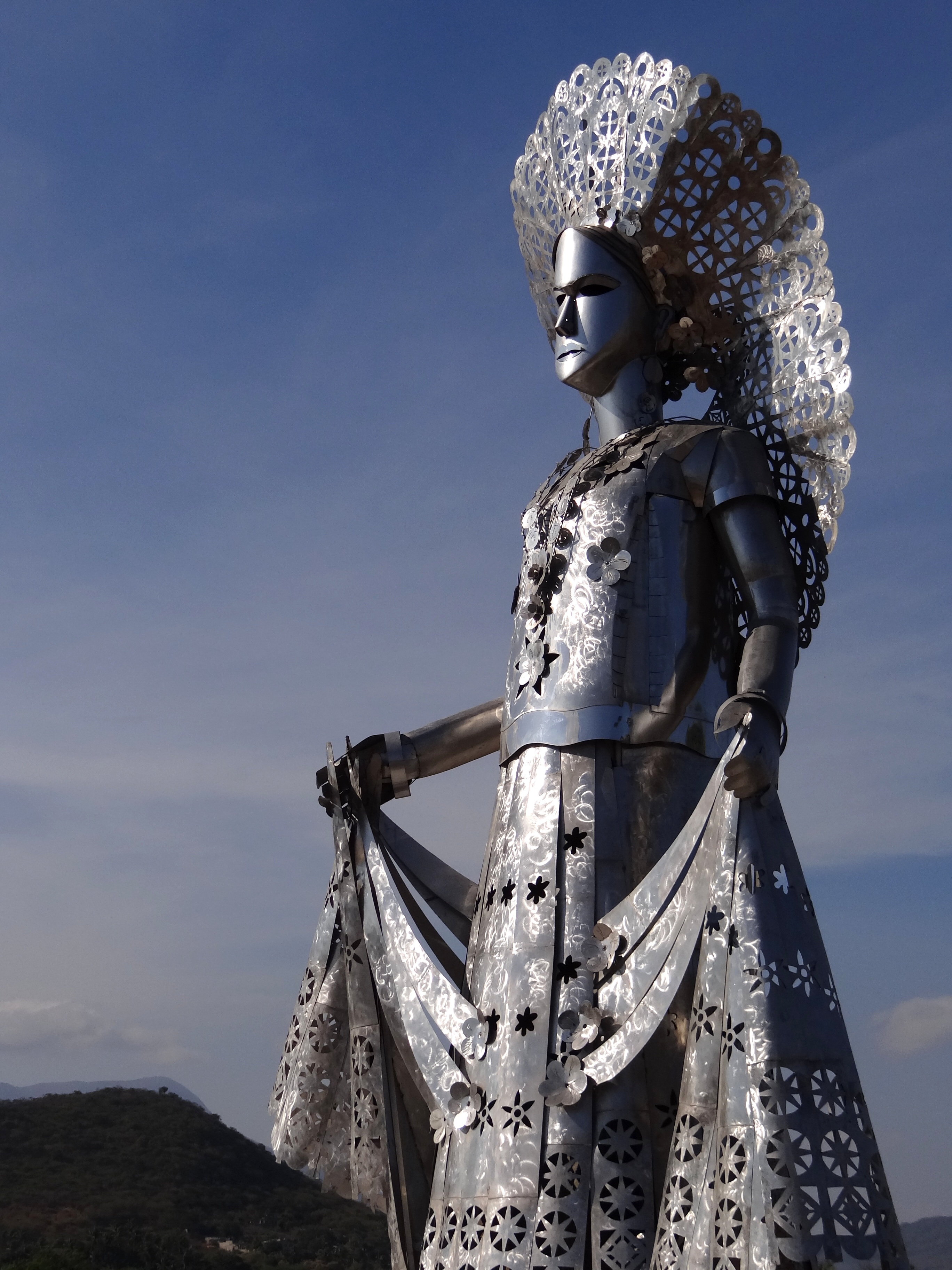 Statue of La Tehuana - Zapotec Woman - By Miguel Hernández Urbán - Tehuantepec - Isthmus Region - Oaxaca - Mexico